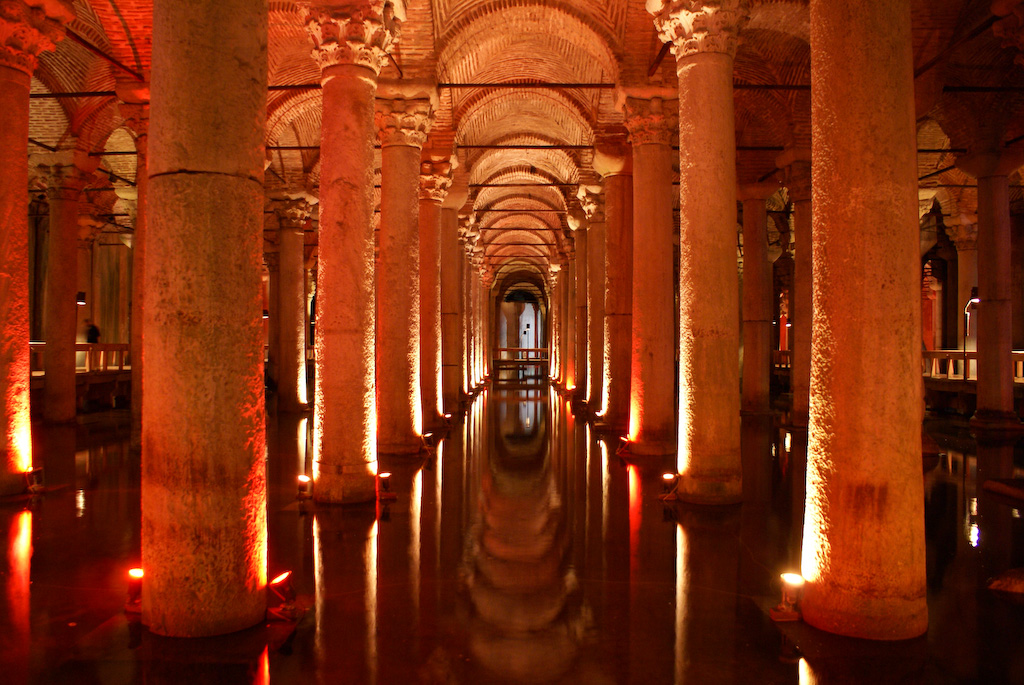 Basilica cistern, Istanbul